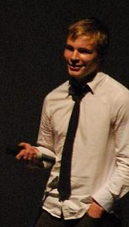 Jonathan B. Wright at TIFF 08